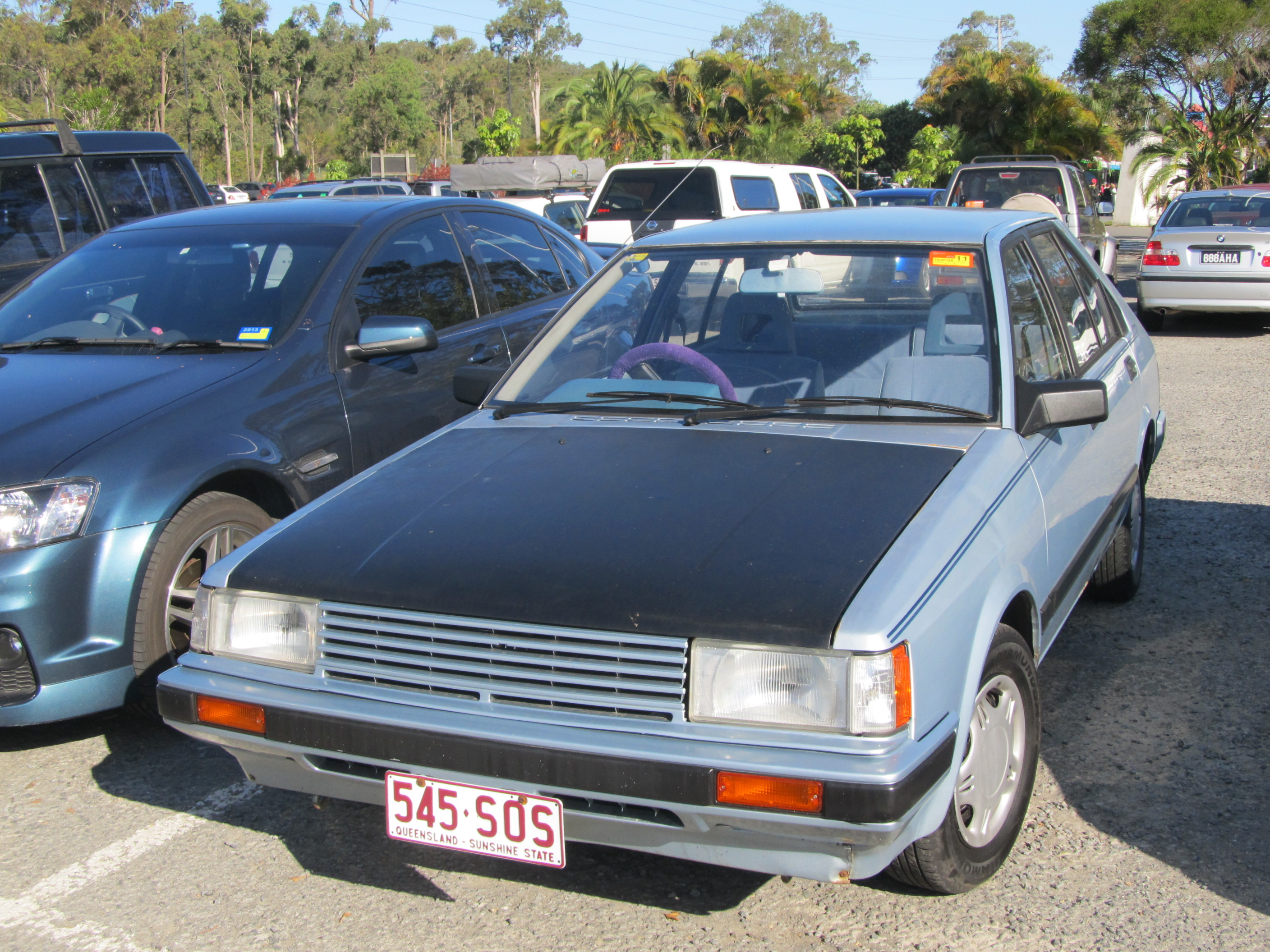 I was hoping to find one of these in Aussie, and sure enough, here's one! These are simply rebadged and lightly restyled Nissan Cherries/Pulsars, and are now very rare in Australia. This one was very high-spec (matching interior!) and in decent condition too. Yes, those are Proton Satria wheel trims.